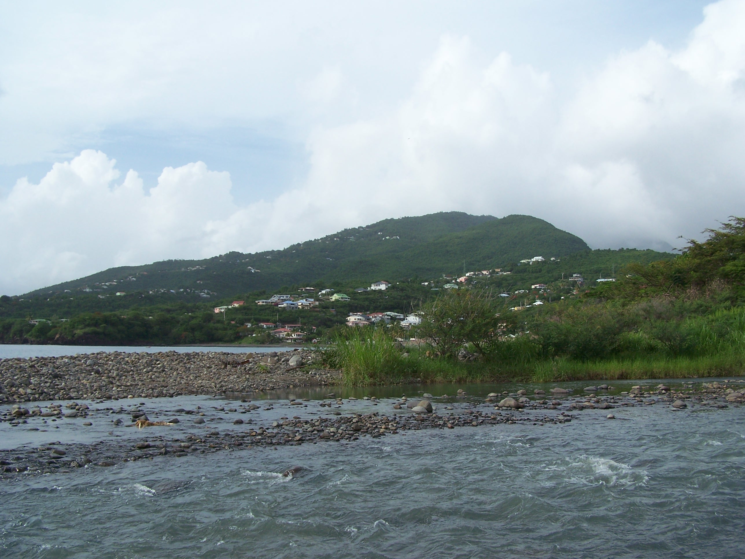 Embouchure de la Grande-Rivière des Vieux-Habitants, en Guadeloupe